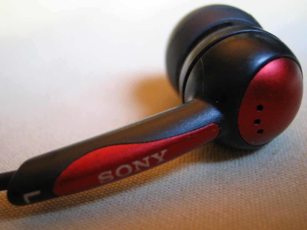 Sony インナーイヤーレシーバー / Headphones with the very light in-the-ear design